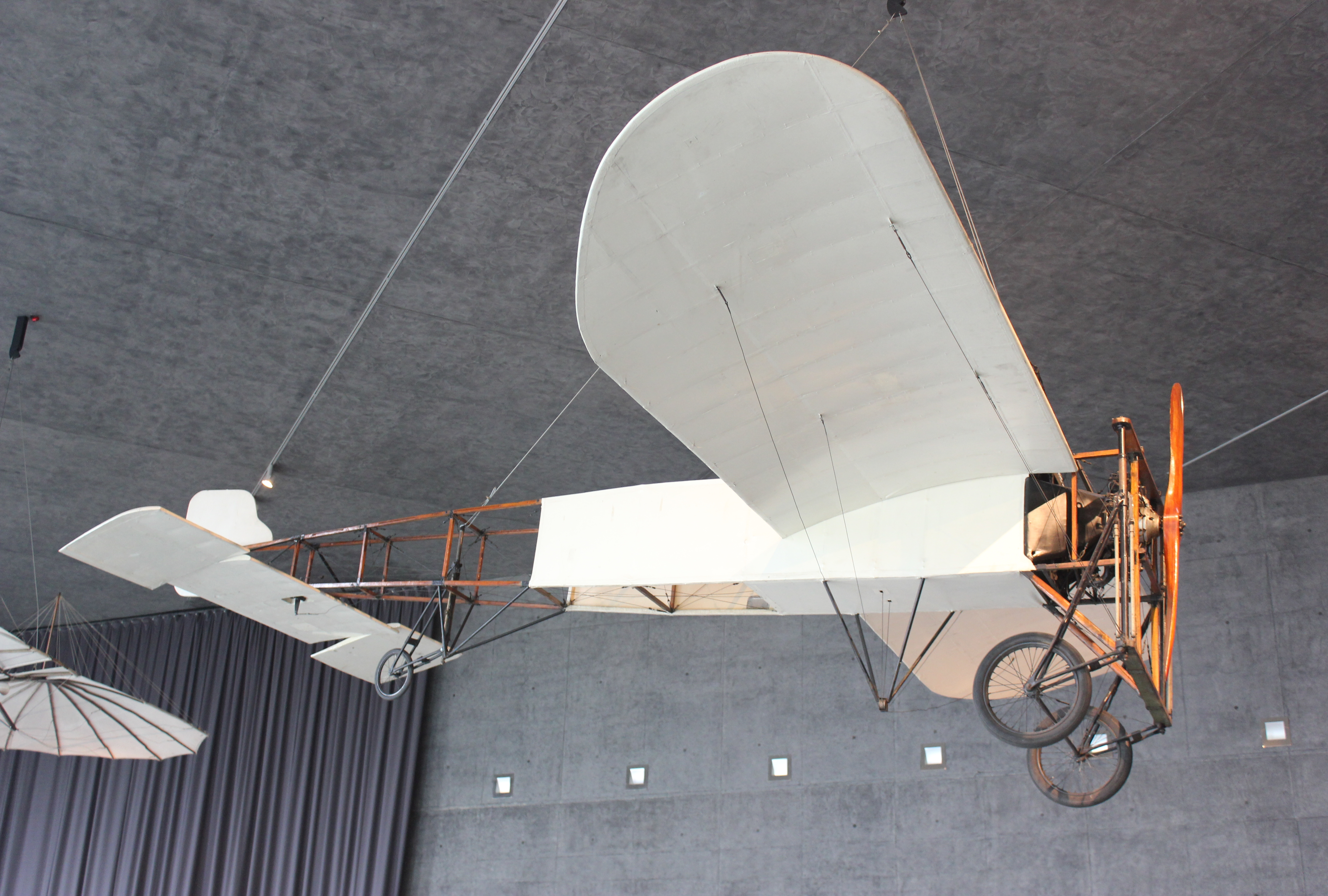 Kraków - Polish Aviation Museum - Blériot XI (replica)